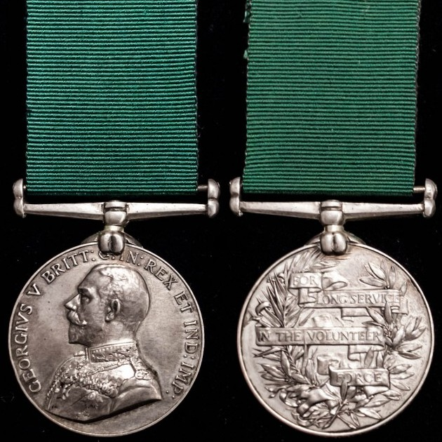 The King George V version of the Volunteer Long Service Medal for India and the Colonies with a double-toe claw suspender mount